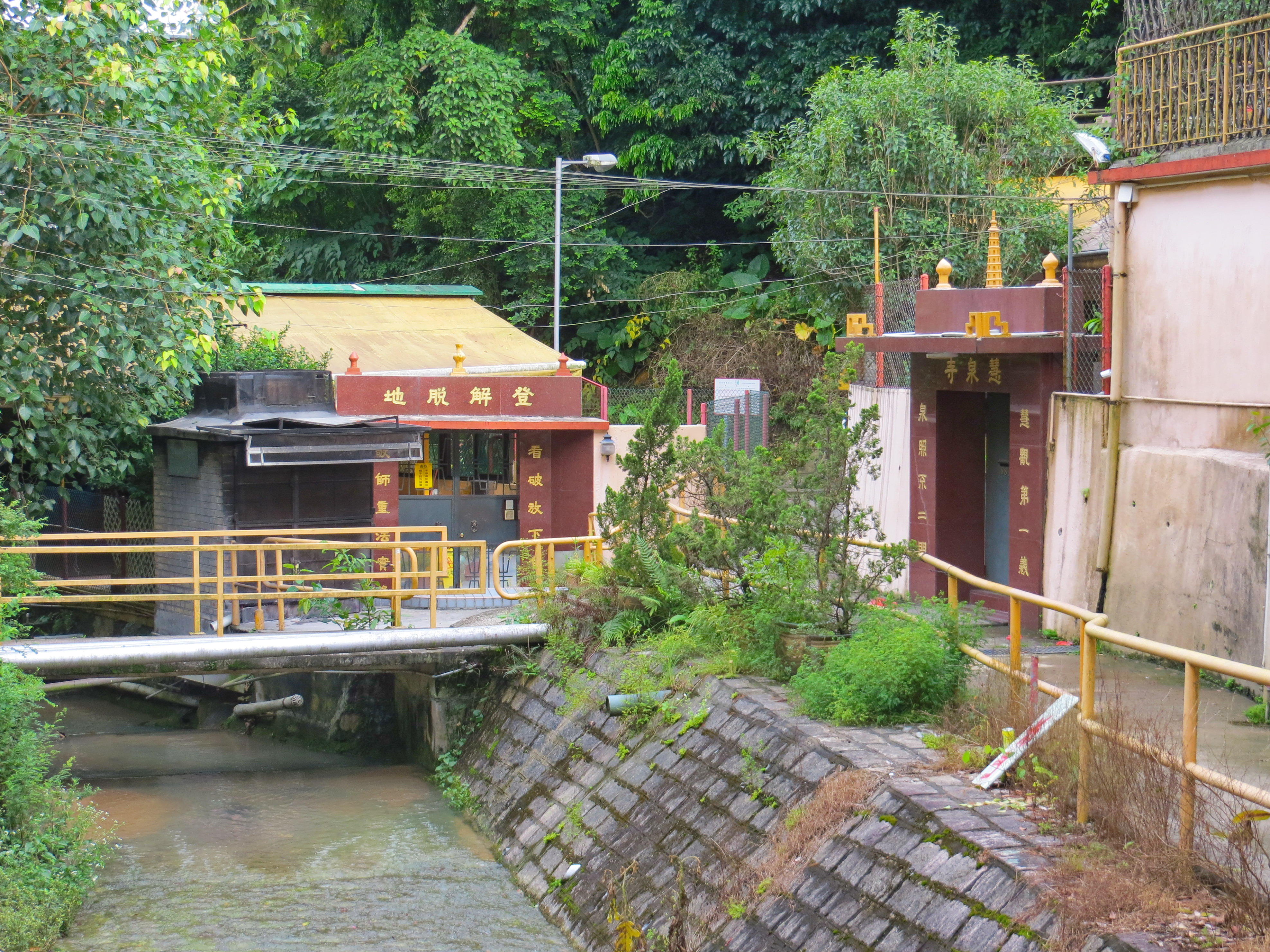 Wai Chuen Monastery, Shatin, New Territories, Hong Kong.